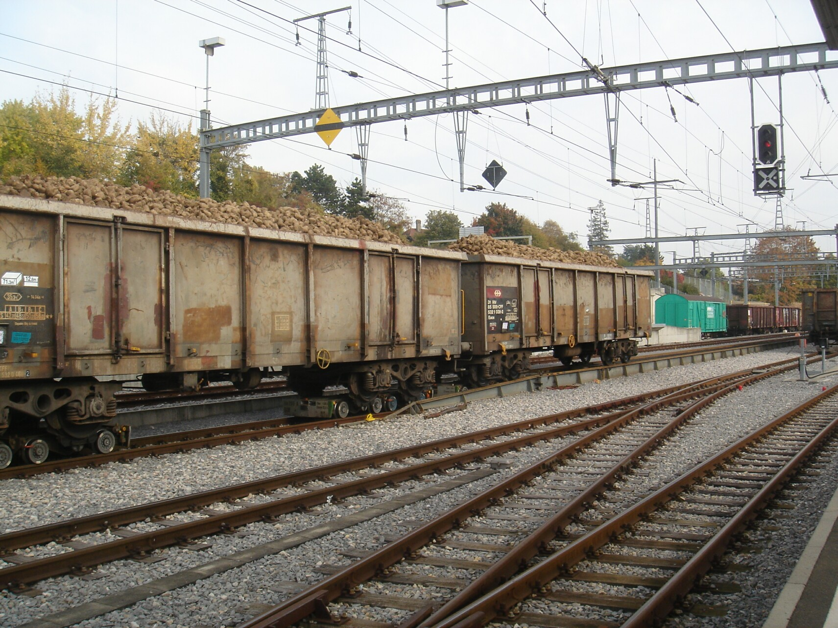 Unloading of a sugar beet train that came to Morges (Switzerland) on meter gauge transporter bogies